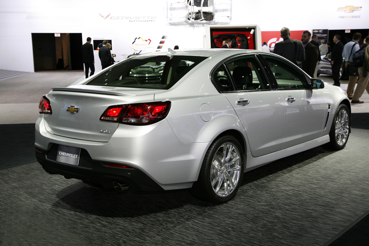 2014 Chevrolet SS exhibited at the 2013 New York International Auto Show